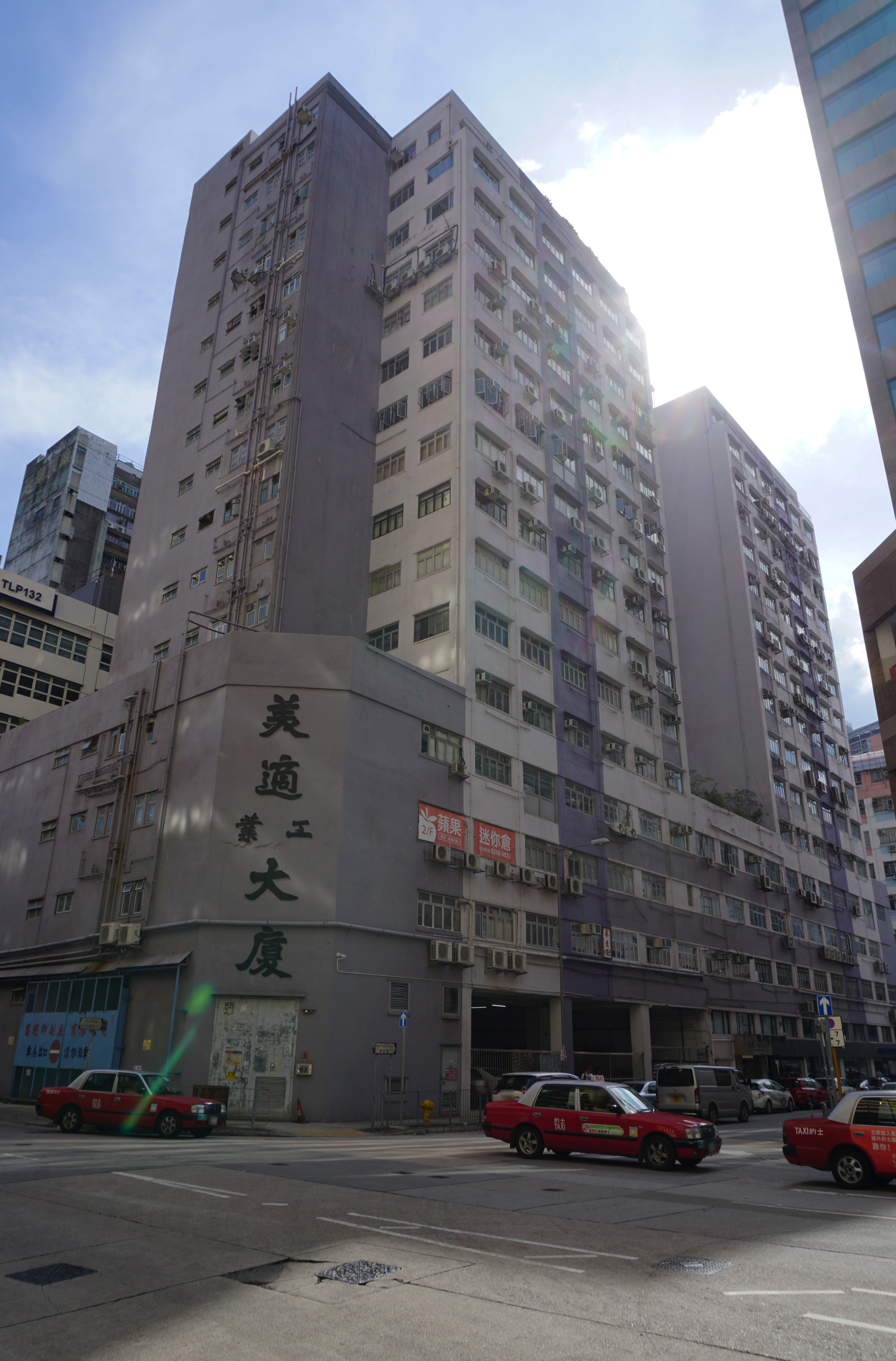 Mai Sik Industrial Building in Kwai Hing, Hong Kong.